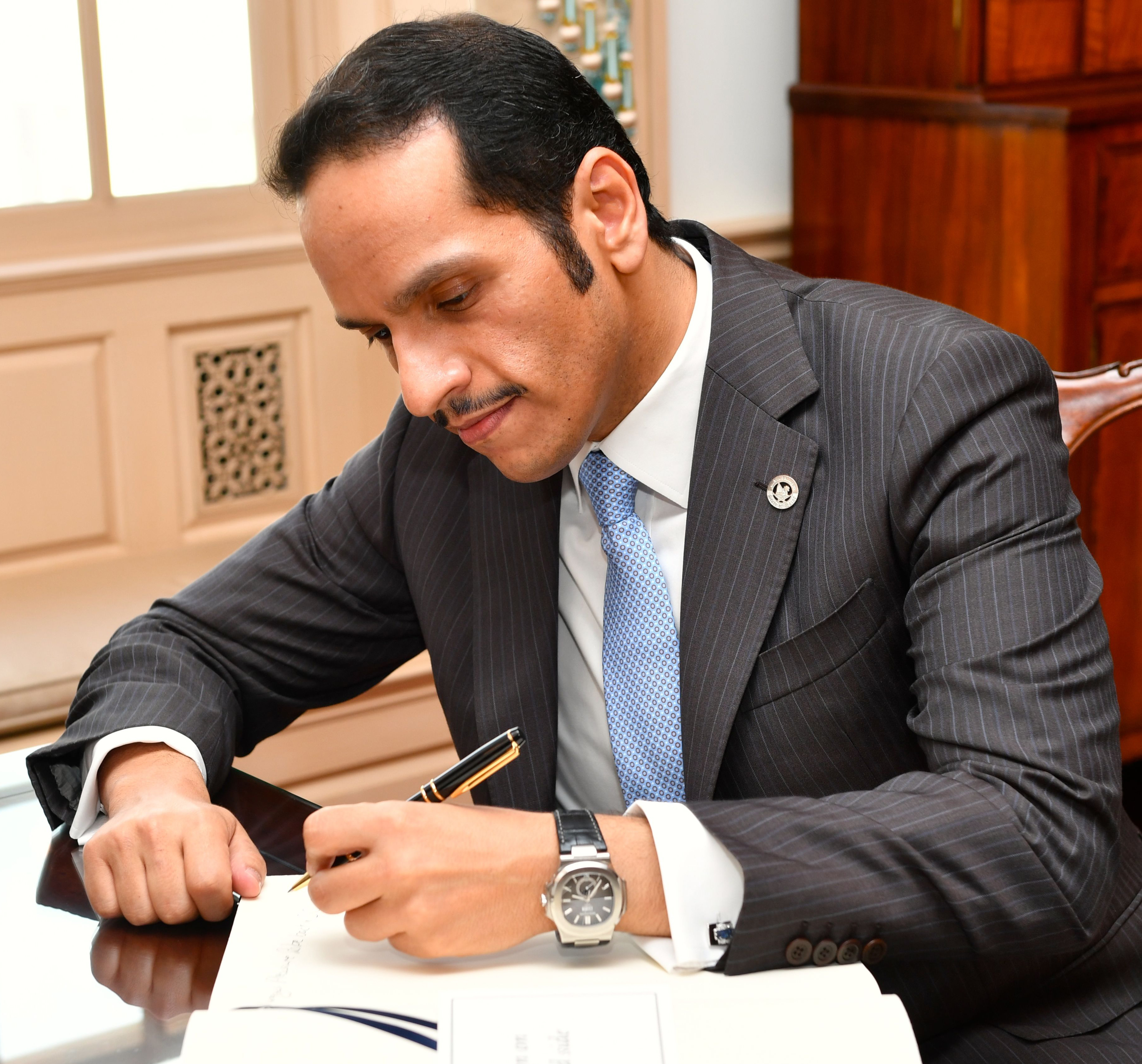 Qatari Foreign Minister Sheikh Mohammed bin Abdulrahman Al Thani signs U.S. Secretary of State Rex Tillerson's guestbook before their bilateral meeting at the U.S. Department of State in Washington, D.C., on July 26, 2017.